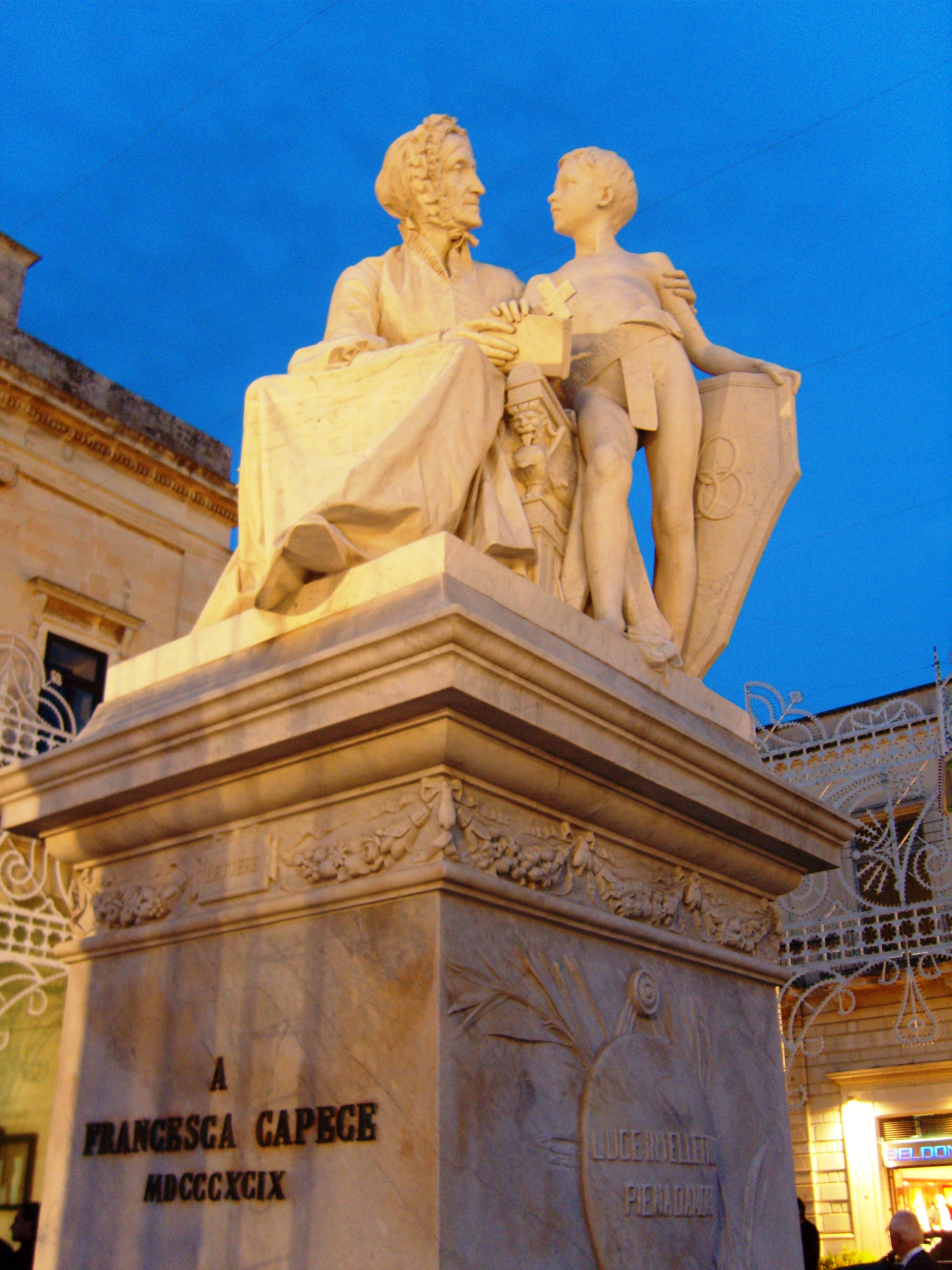 Monument of Francesca Capece in Aldo Moro square in Maglie, Province of Lecce - Apulia (Italy)